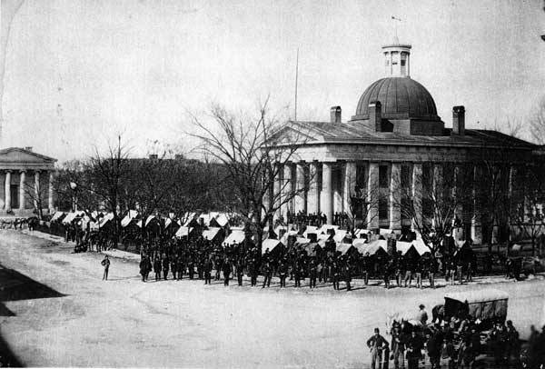 Courthouse Square, Huntsville, Alabama, 1864. Federal troops occupy the Courthouse Square in 1864. The soldiers reportedly tore down the North Alabama College to construct their winter quarters using brick from the college. The Old Northern Bank of Alabama is visible in the left of the photograph.